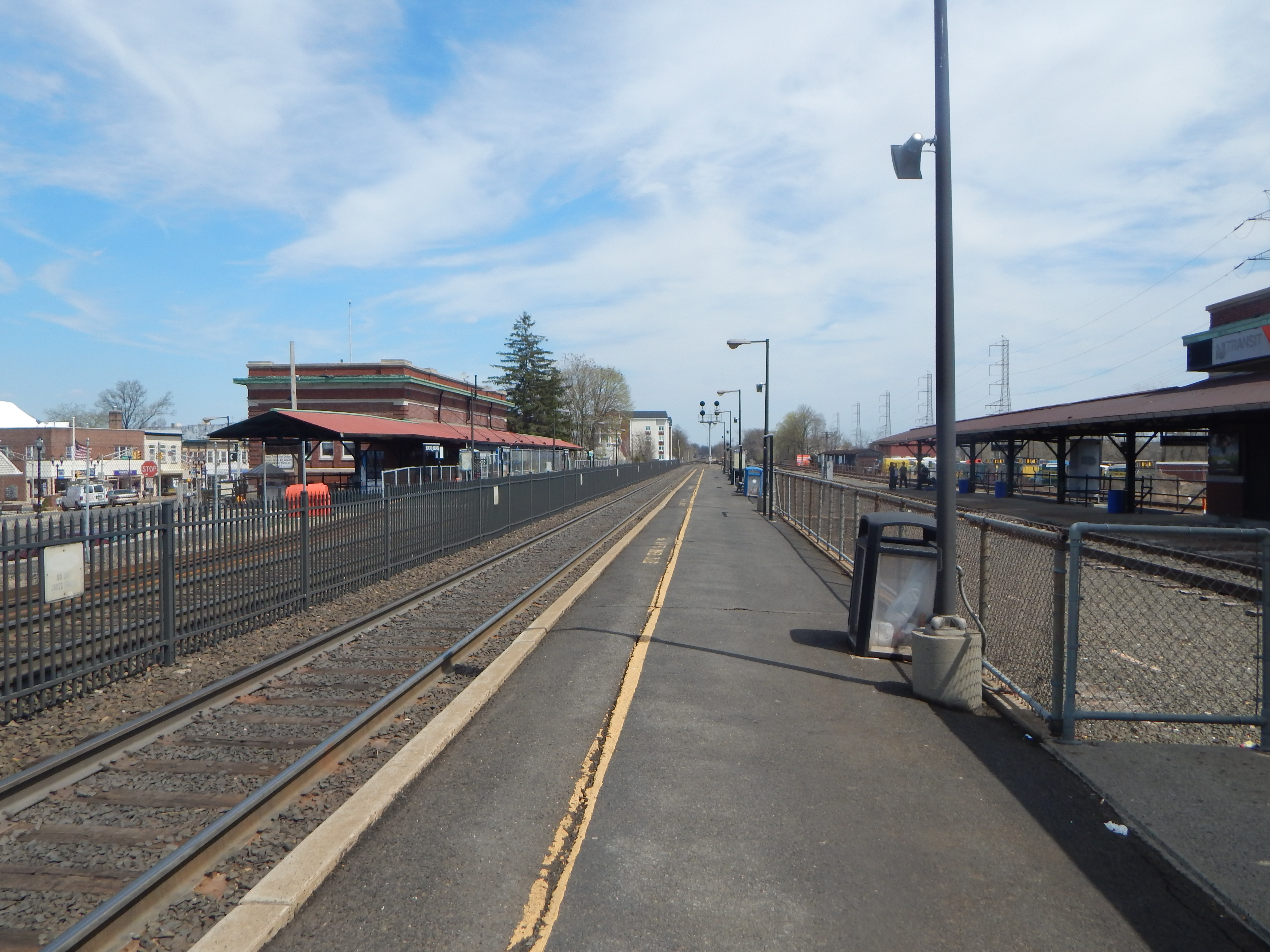 The Bound Brook station for New Jersey Transit in Bound Brook, New Jersey.